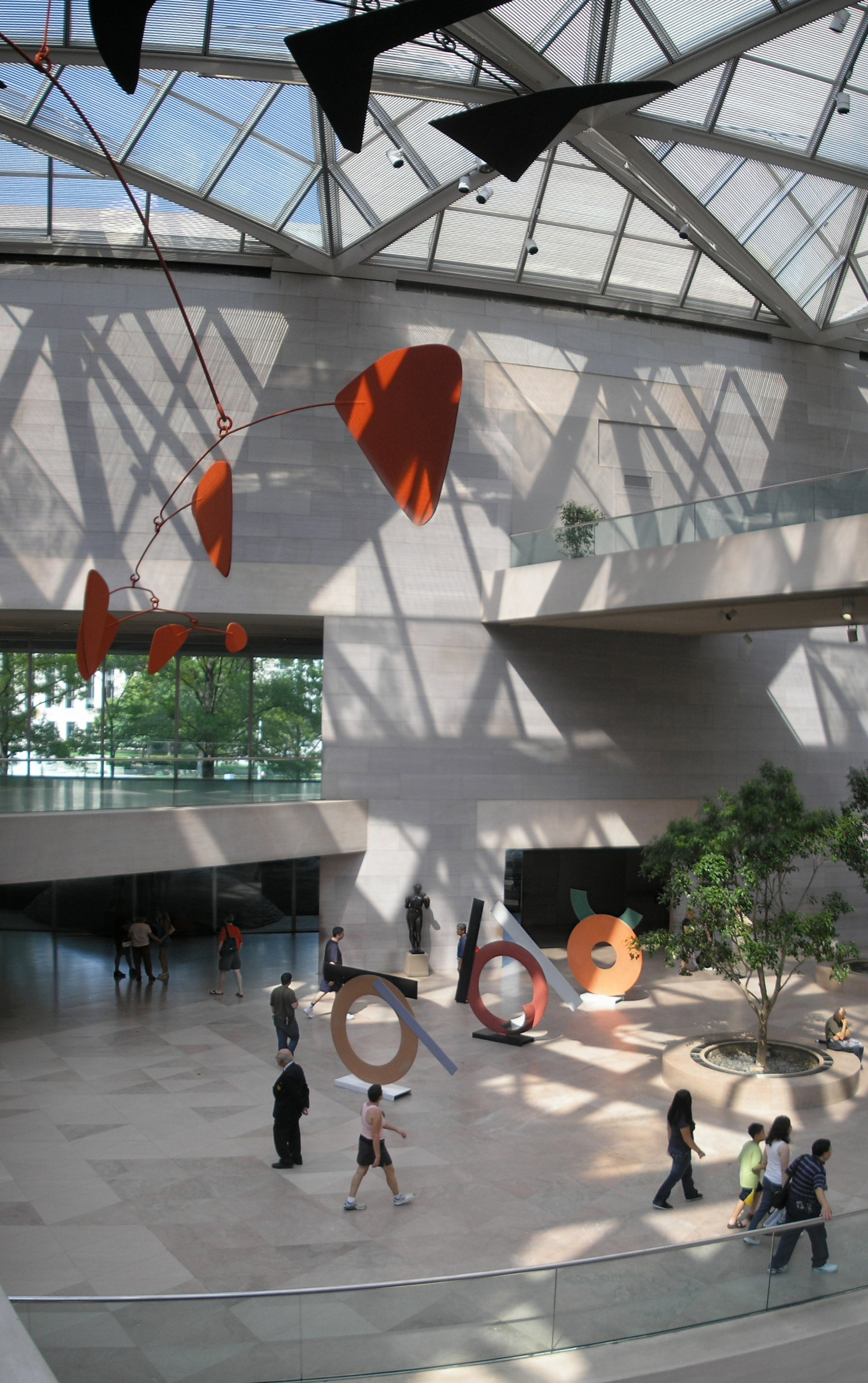 Main hall of the East Building of the National Gallery of Art.